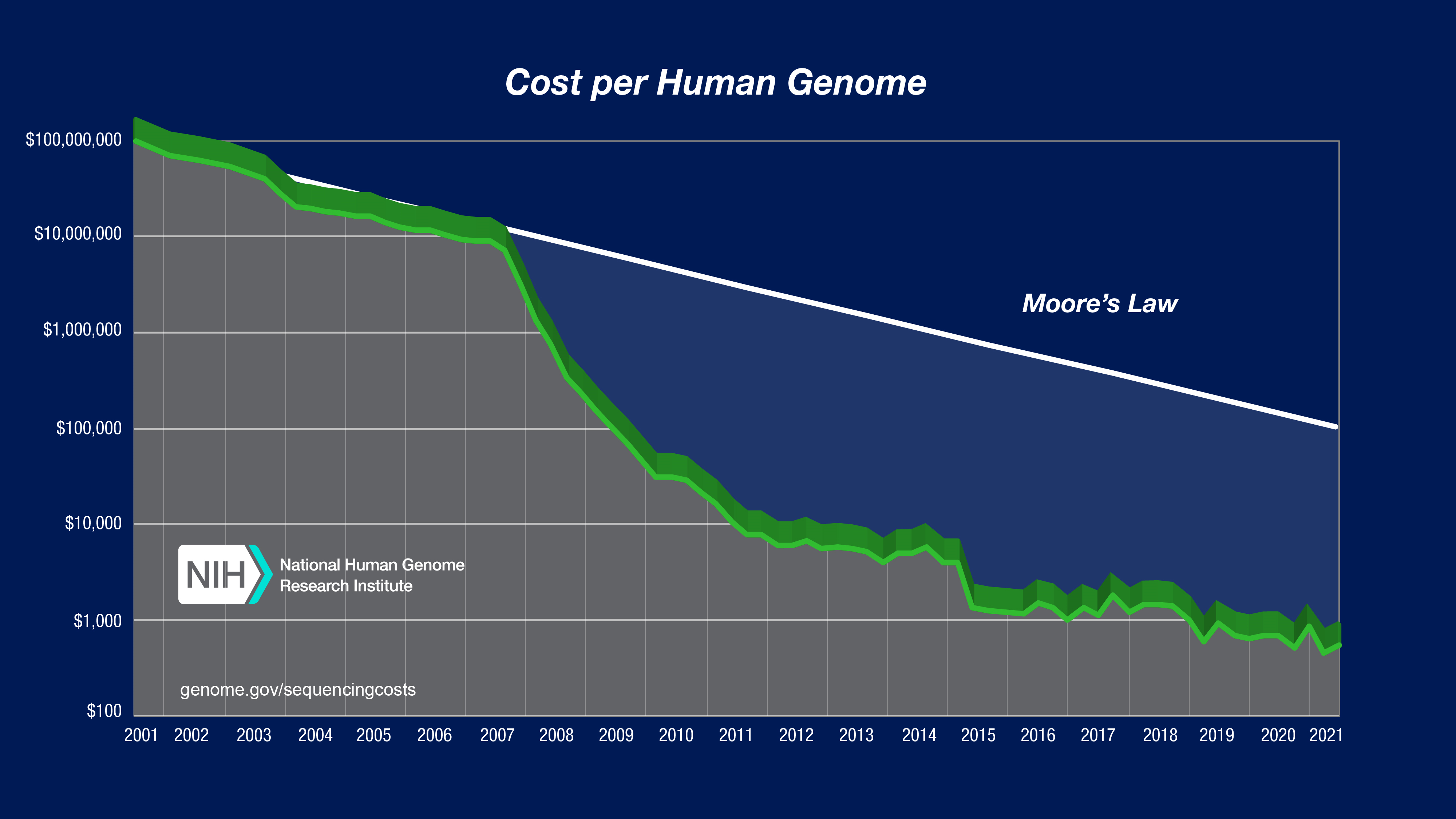 Approximate cost of sequencing a human genome since 2001